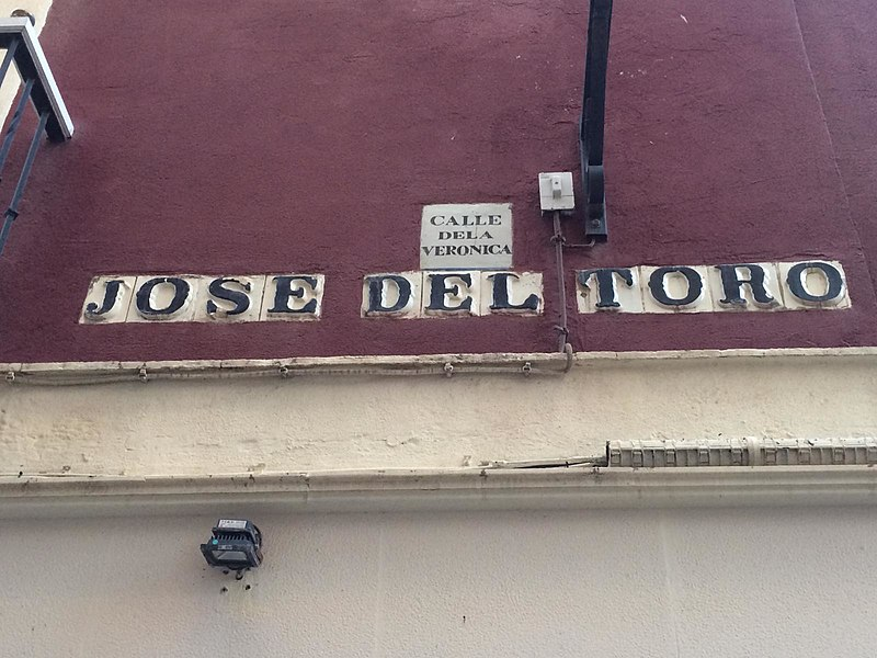 Calle José del Toro